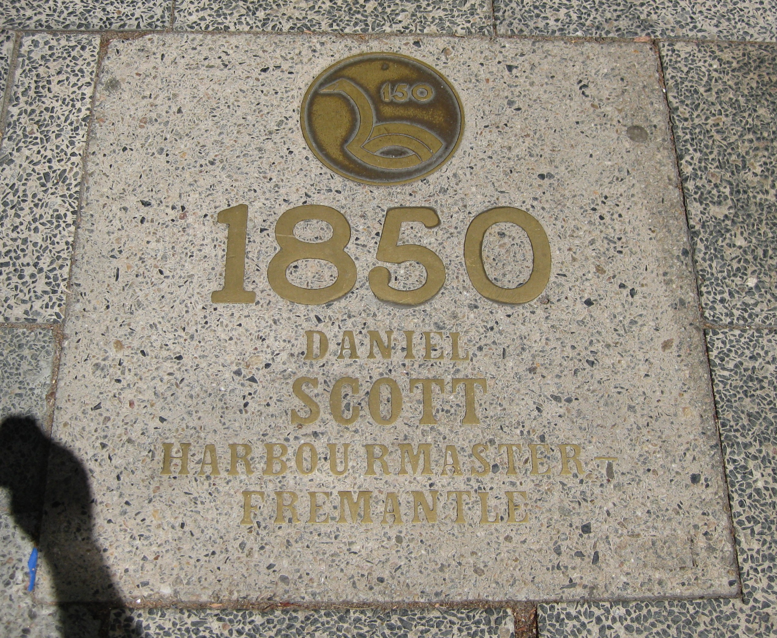 1850 - Daniel Scott - Harbourmaster, Fremantle. For Western Australia's 150th Anniversary in 1979, 150 plaques were laid along Saint Georges Terrace, each commemorating an important Western Australian. The plaques were 'donated' (ie: paid for) by various companies, organisations and individuals. Being completely nuts I decided to photograph them all. Over the last 29 years many of the plaques have been moved around. Many are also missing their small "donated by" plaques in the lower right corner. But they're all still there - even if I missed a few and wasn't able to capture 1956 to 1966 (thanks to construction workers closing the pavement)